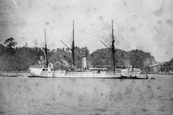 Japanese gunboat BANJO at Yokosuka.